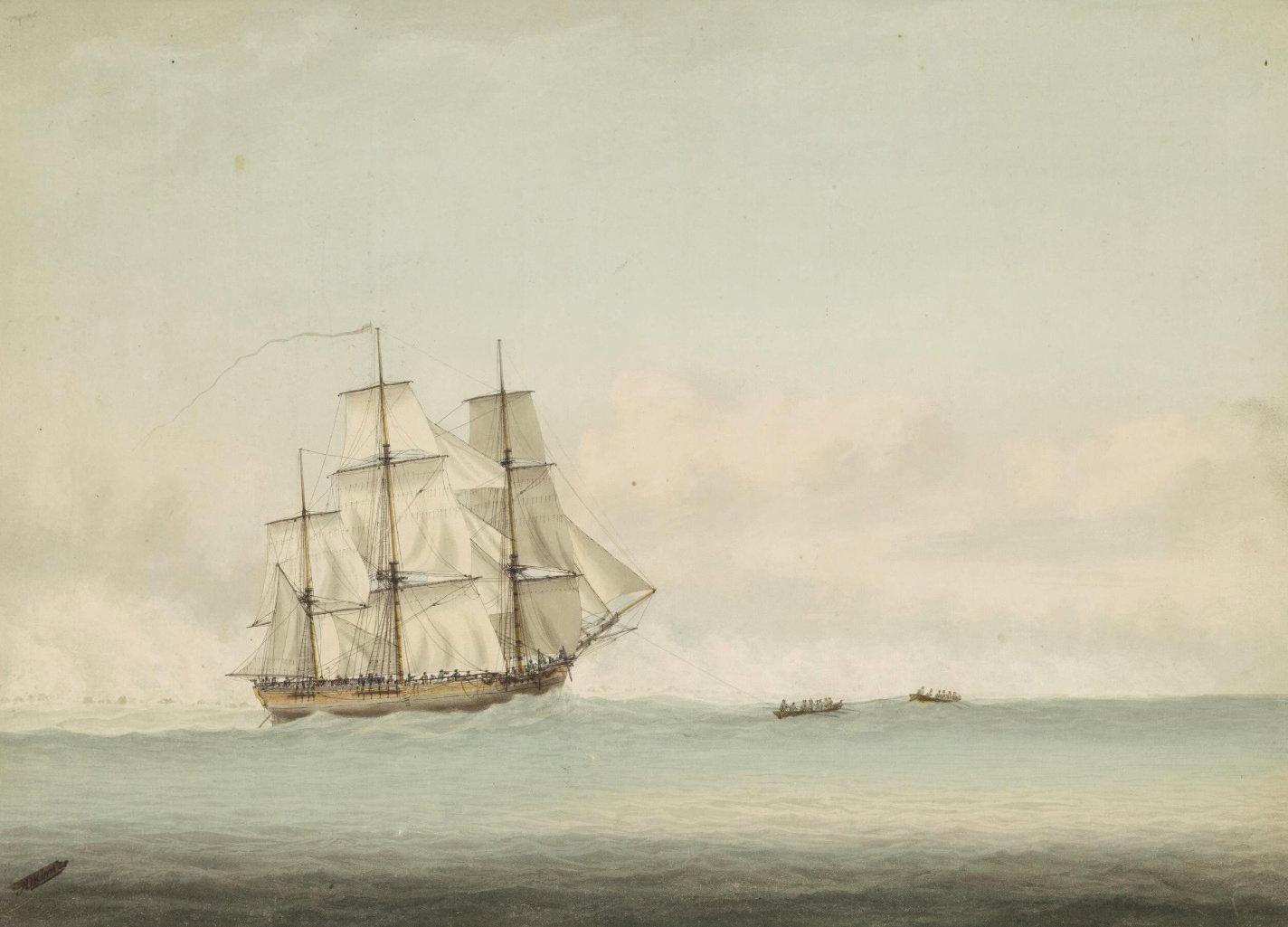 Painting by Samuel Atkins (1787-1808) of Endeavour off the coast of New Holland during Cook's voyage of discovery 1768-1771. Inscription on reverse of painting indicates it relates to the grounding of the Endeavour on the Great Barrier Reef in June 1770.